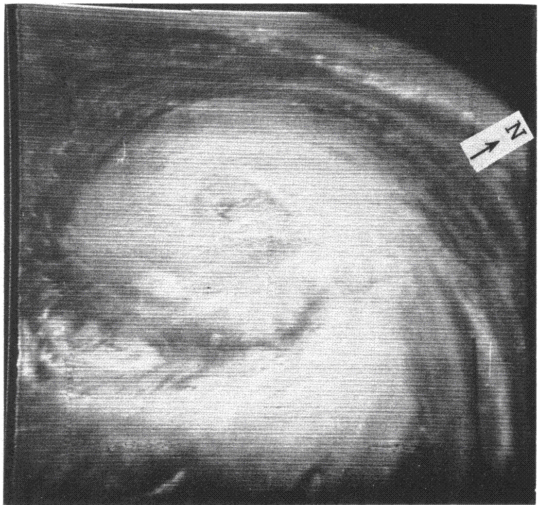 Satellie photograph of Hurricane Daisy